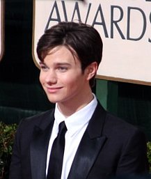 Golden Globe Awards January 17, 2010